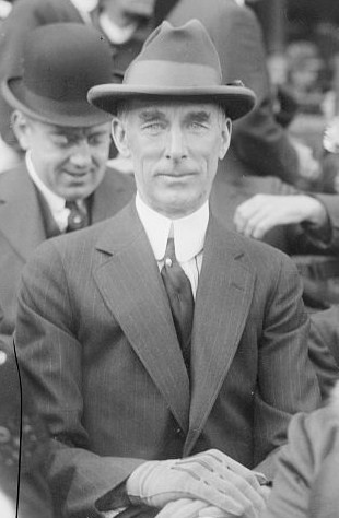 Connie Mack, in ballpark grandstand, cropped tight for portrait, 1916